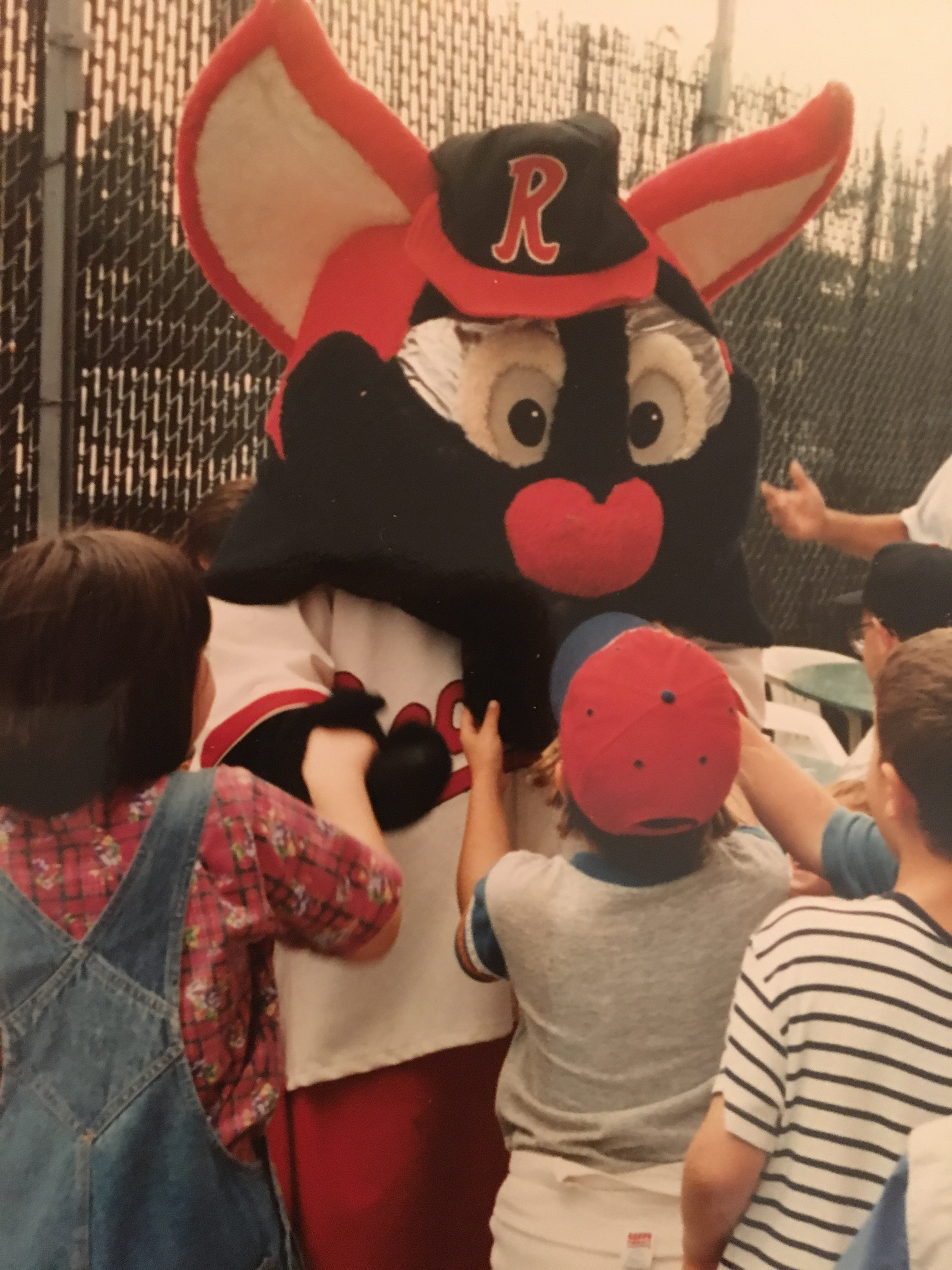 Wild Fang entertains children during a game at Silver Stadium.